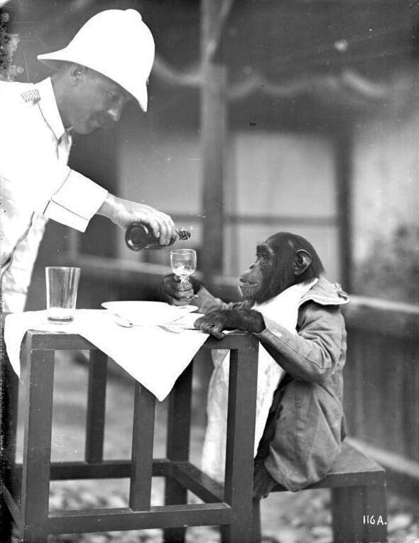 German East Africa, Chimpanzee Hamiss. Ape with drink sitting at a table, man with topee pouring.See also: File:Bundesarchiv Bild 105-DOA0117, Deutsch-Ostafrika, Schimpanse Hamiss.jpg File:Bundesarchiv Bild 105-DOA0118, Deutsch-Ostafrika, Schimpanse Hamiss.jpg File:Bundesarchiv Bild 105-DOA0119, Deutsch-Ostafrika, Schimpanse Hamiss.jpg File:Bundesarchiv Bild 105-DOA0120, Deutsch-Ostafrika, Schimpanse Hamiss.jpg